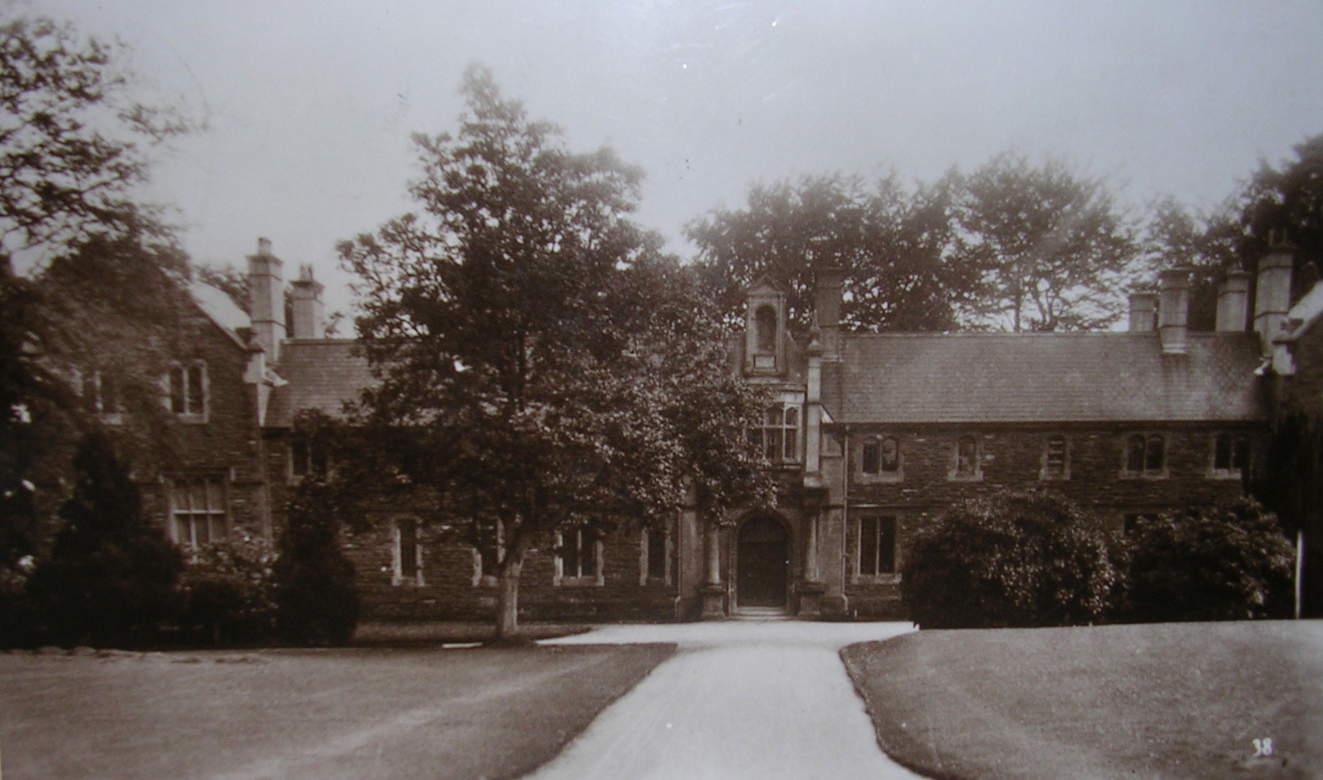 The Canterbury Building, University of Wales, Lampeter in 1889.